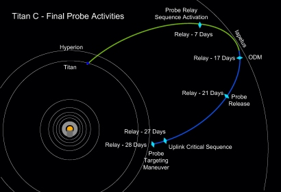 Plot showing the probe activities during the last four weeks prior to the descent of the Huygens Probe in Titan's atmosphere on 14 January 2005.